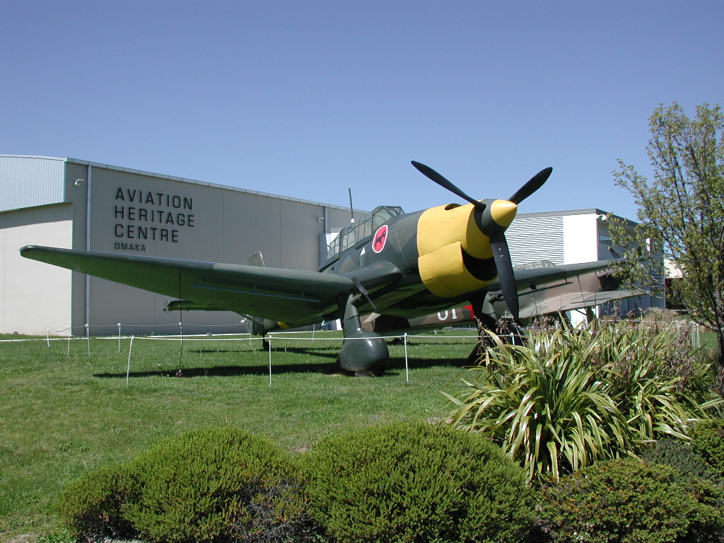 Stuka replica outside of the Omaka Aviation Heritage Centre near Blenheim, New Zealand